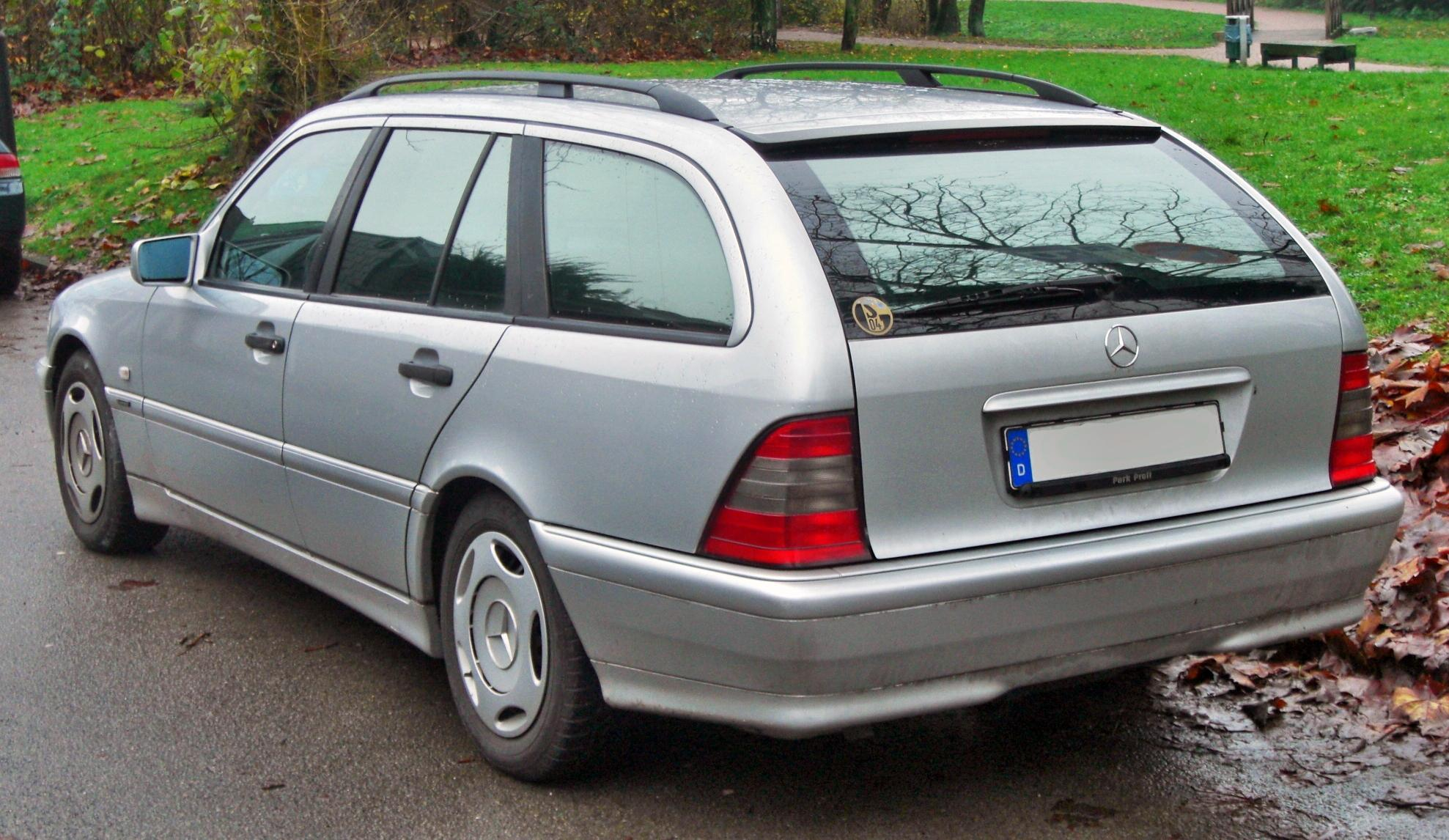 Description: Mercedes C-Klasse T-Modell Esprit (S 202) Facelift Source: Matthias Other Version(s)